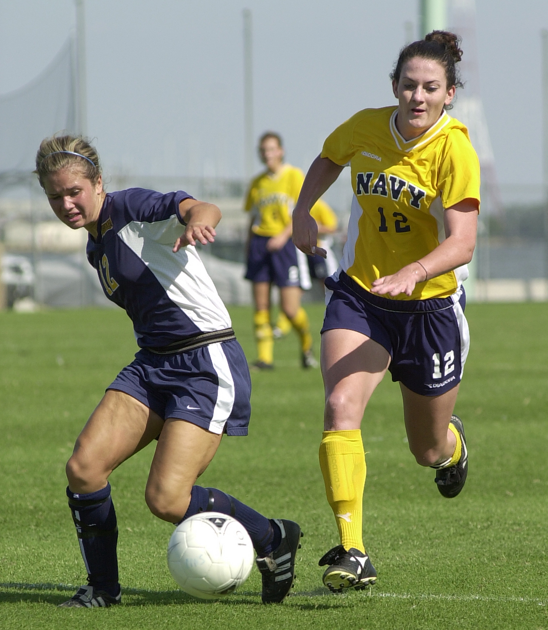 U.S. Naval Academy (Sep. 7, 2003) -- Navy midfielder Ariana Downs tries to steal the ball from Drexel University defender Jenna Carson during a soccer game at the U.S. Naval Academy's Glenn Warner Soccer Facility. The Midshipmen defeated the Dragon's 5-2 with five second half goals, bringing their 2003 record to 4-0. The Navy’s women soccer team has gone 30 consecutive regular-season games without a loss. They hope to mark a new NCAA attendance record for women's soccer when they host the 16-time national champion University of North Carolina Sept. 26 at Navy-Marine Corps Memorial Stadium in Annapolis, Md. U.S. Navy photo by Photographer's Mate 2nd Class Damon J. Moritz. (RELEASED)